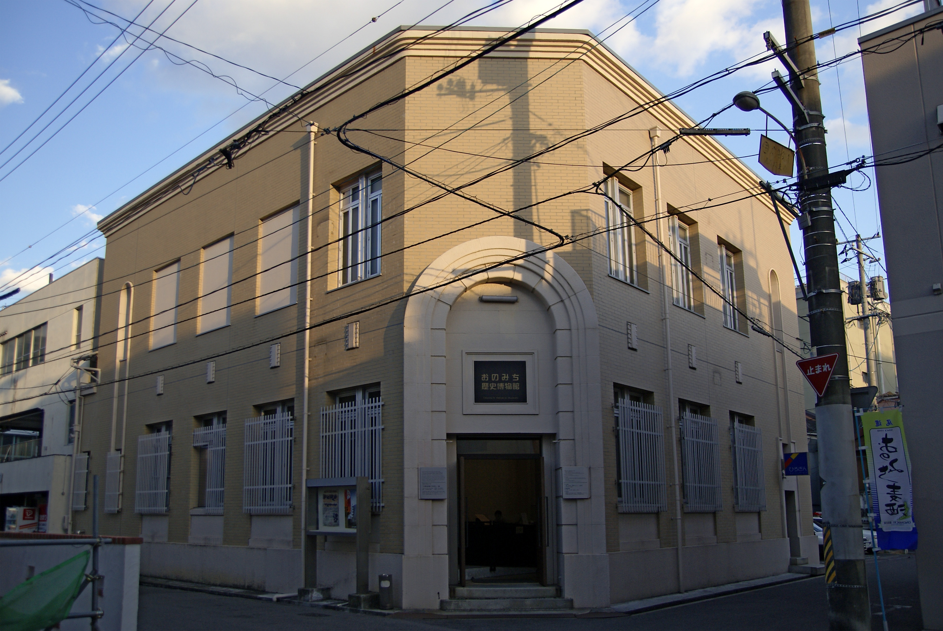 Onomichi Historical Museum in Onomichi, Hiroshima prefecture, Japan